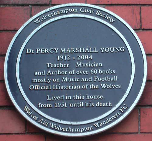 Commemorative Plaque for Dr Percy Marshall Young Wolverhampton